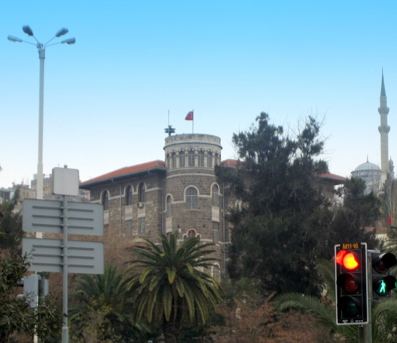 General view of İzmir Ethnography Museum (see List of museums in İzmir, İzmir, Turkey